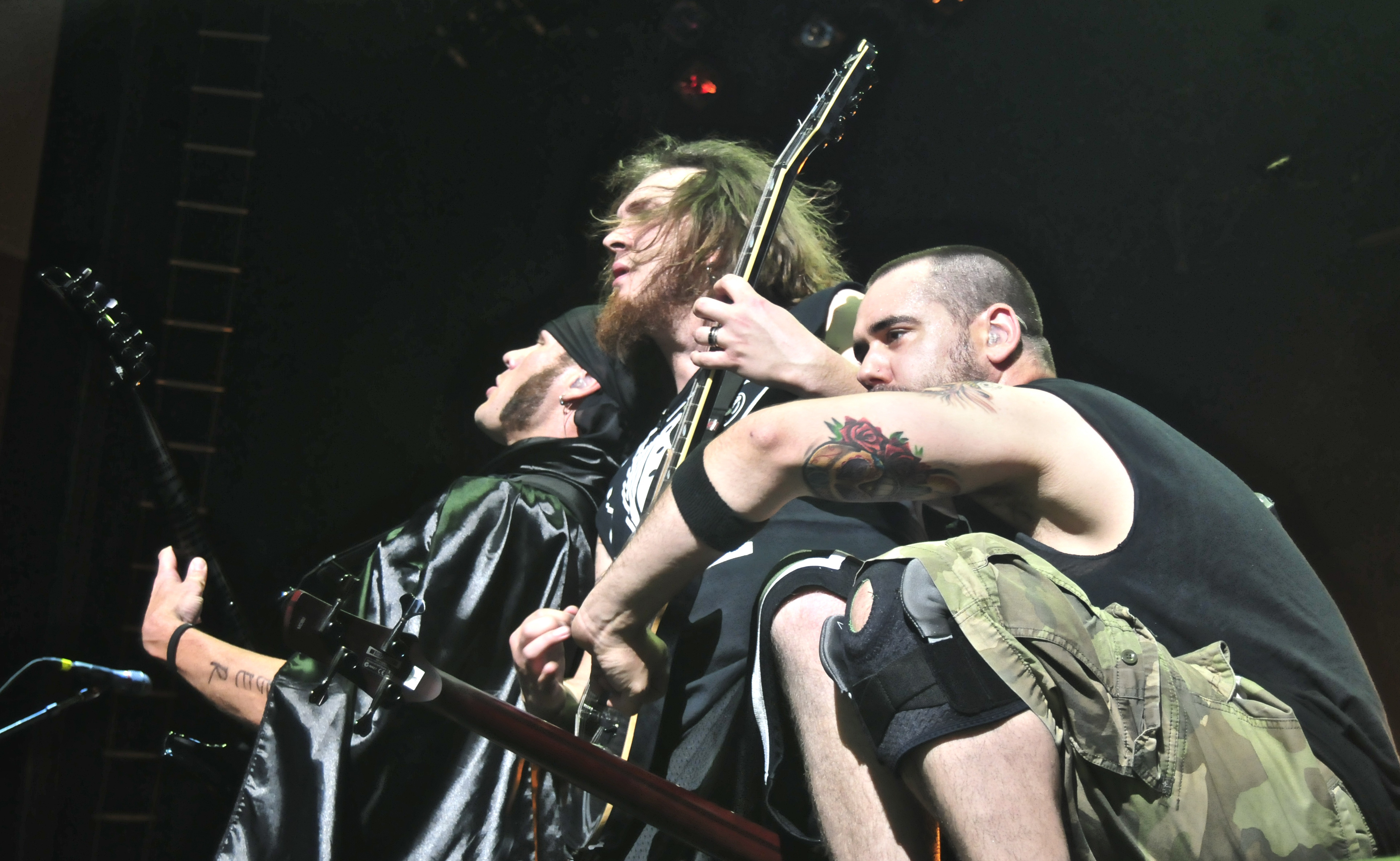 Adam, Mike´D Antonio And Joel